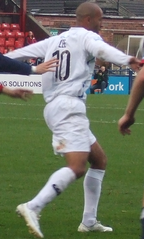 Jason Lee.